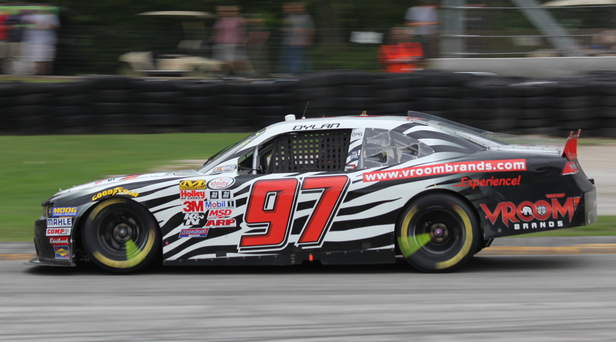 The NASCAR Xfinity Series car of Dylan Kwasniewski turning left in Turn 6 at Road America.